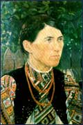 Portrait of a Woman